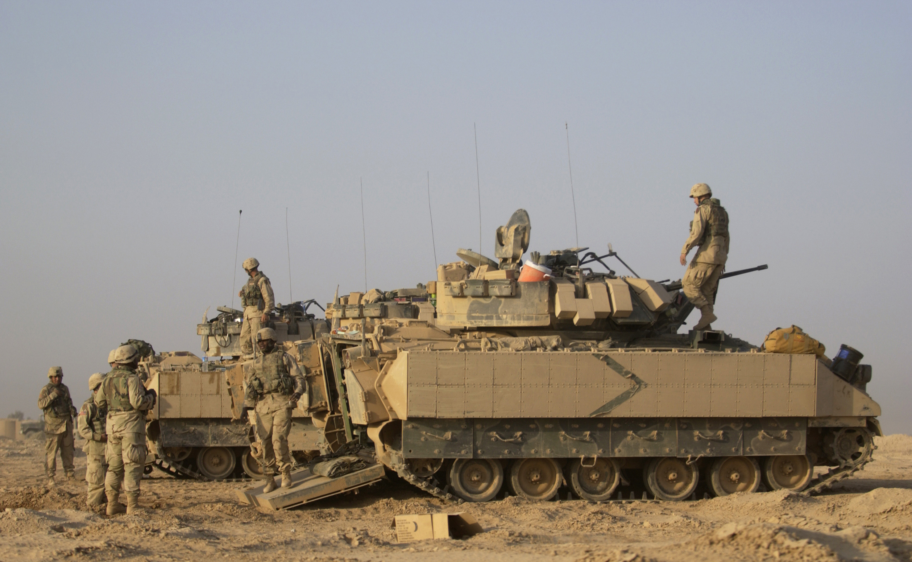 U.S. Army soldiers prepare themselves and their M2A2 Bradley Fighting Vehicles for an up coming mission at Forward Operating Base MacKenzie in Iraq on Oct. 28, 2004. The soldiers are assigned to Bravo Troop, 1st Battalion, 4th Cavalry Regiment, 1st Infantry Division.